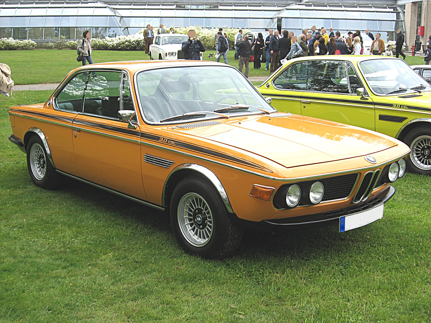 Subject:BMW 3.0 CSL (E9 model) Date:April 27th, 2008 Event:Concorso d’Eleganza”Villa d’Este” 2008 Place/Country: Cernobbio (CO), Italy I release all rights in the public domain.